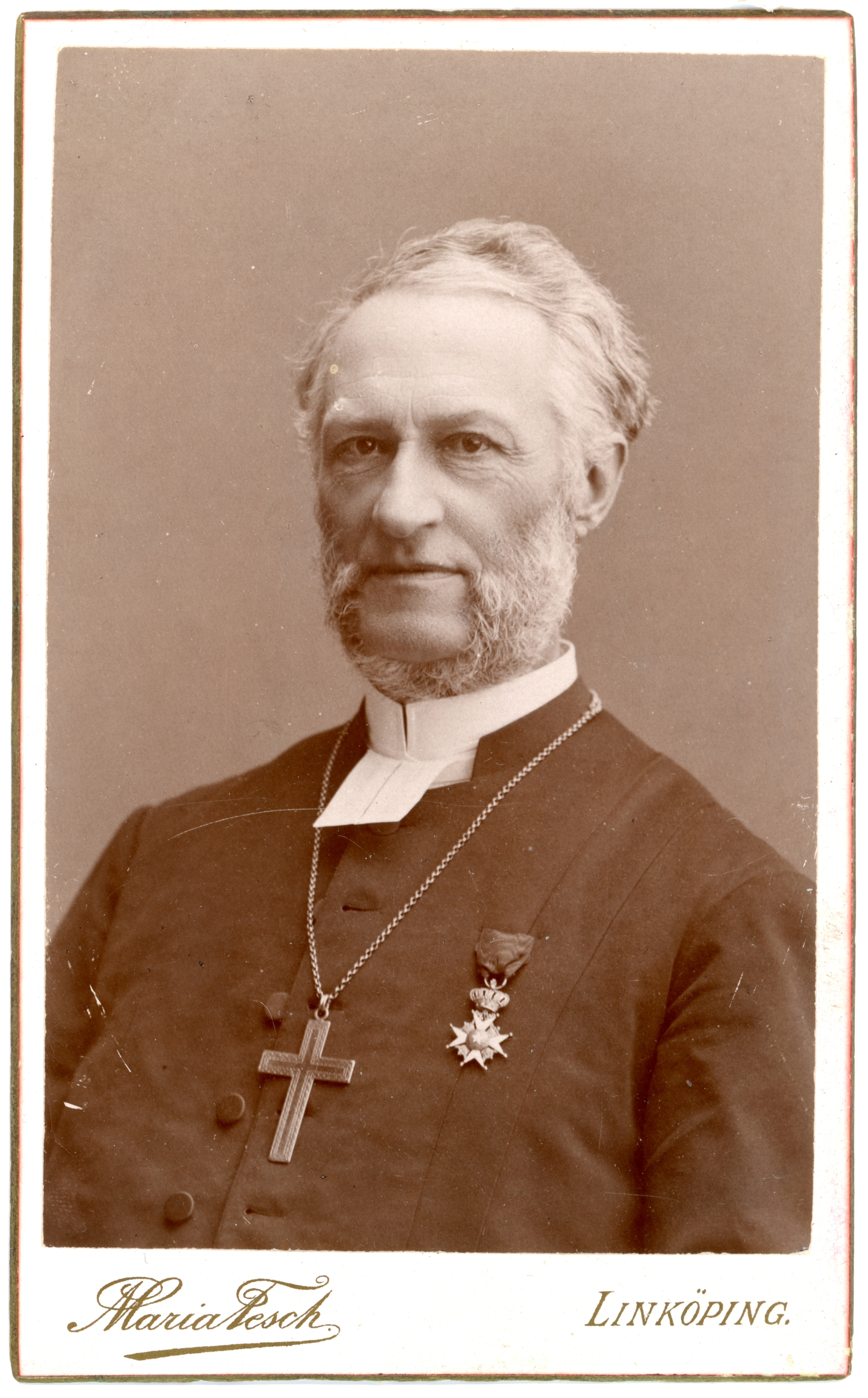 Carl Alfred Cornelius (1828—1893), bishop of Linköping from 1884 to 1893. Photographed by Maria Tesch.